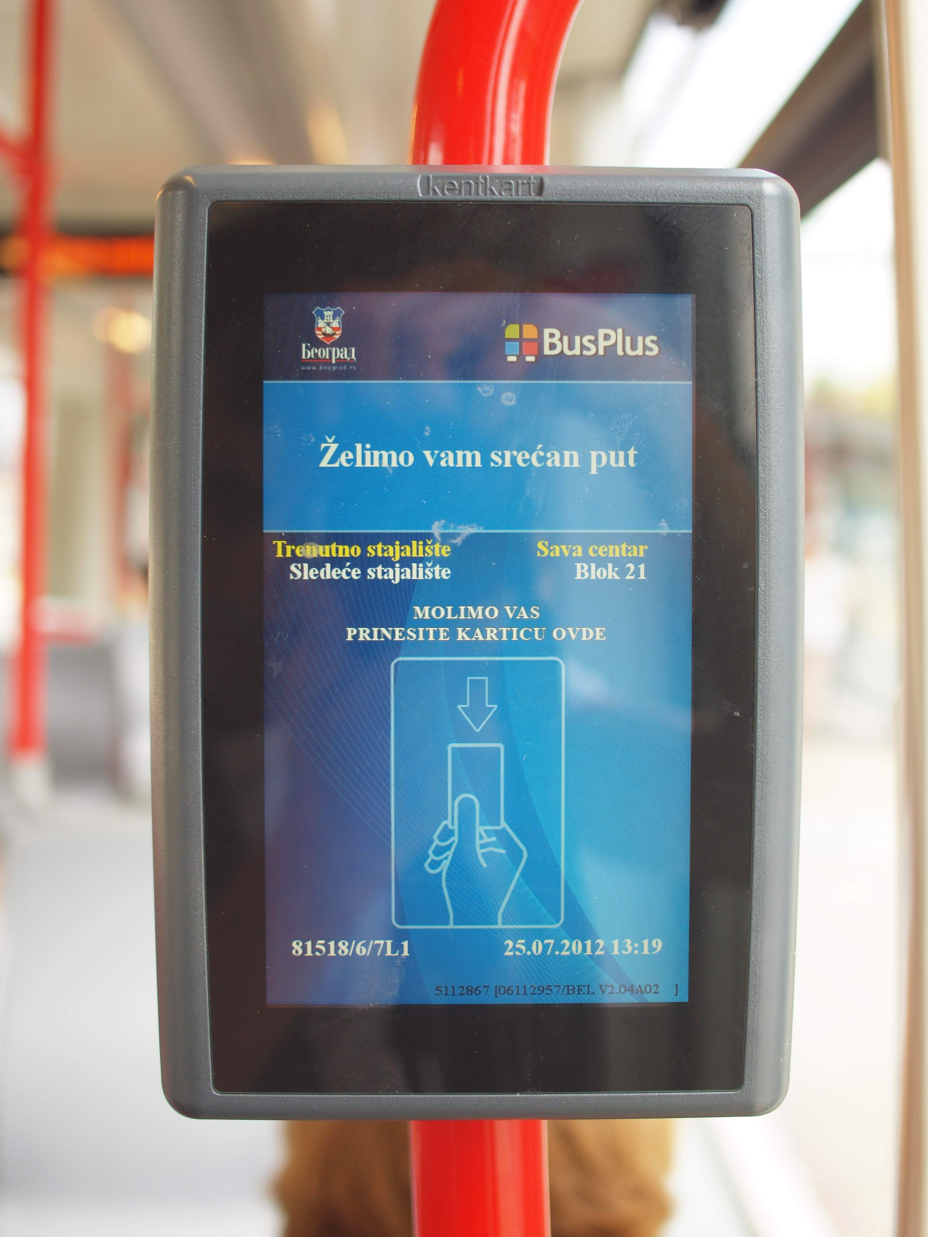 BusPlus System of the GSP transportation system in Belgrade